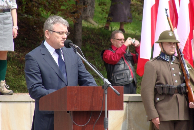 Constitution Day in Sanok